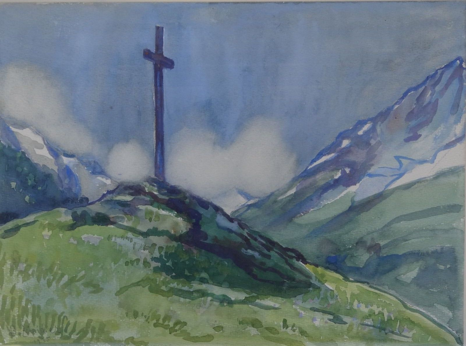 Bertha ZÜRICHER (1869-1949), 1935 "summit cross", Aquarall (247/12063)